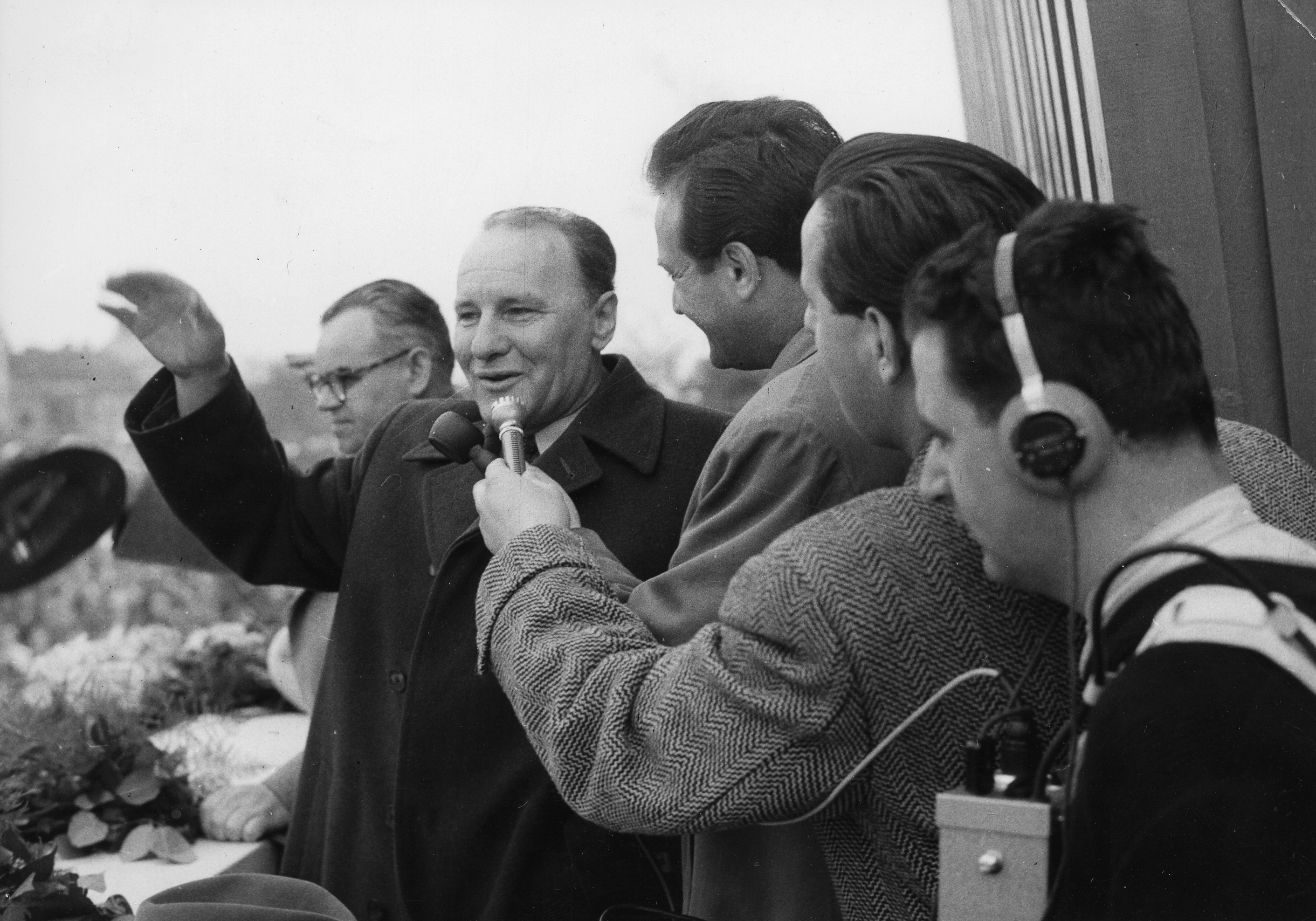 Szepesi György 1960. május 1-i riportot készít Kádár Jánossal a Felvonulási tér dísztribünjén Budapesten